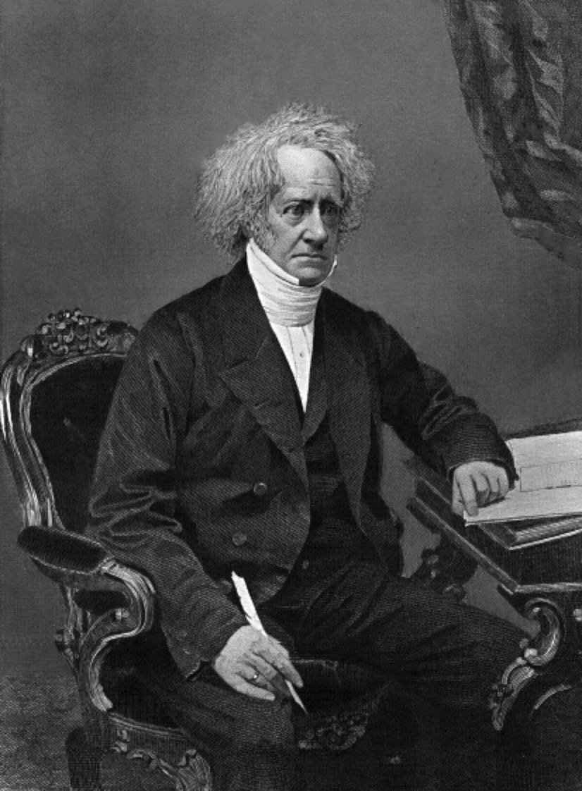 Sir John Frederick William Herschel, 1st Baronet KH (March 7, 1792–May 11, 1871) was an English mathematician, astronomer, chemist, and experimental photographer/inventor